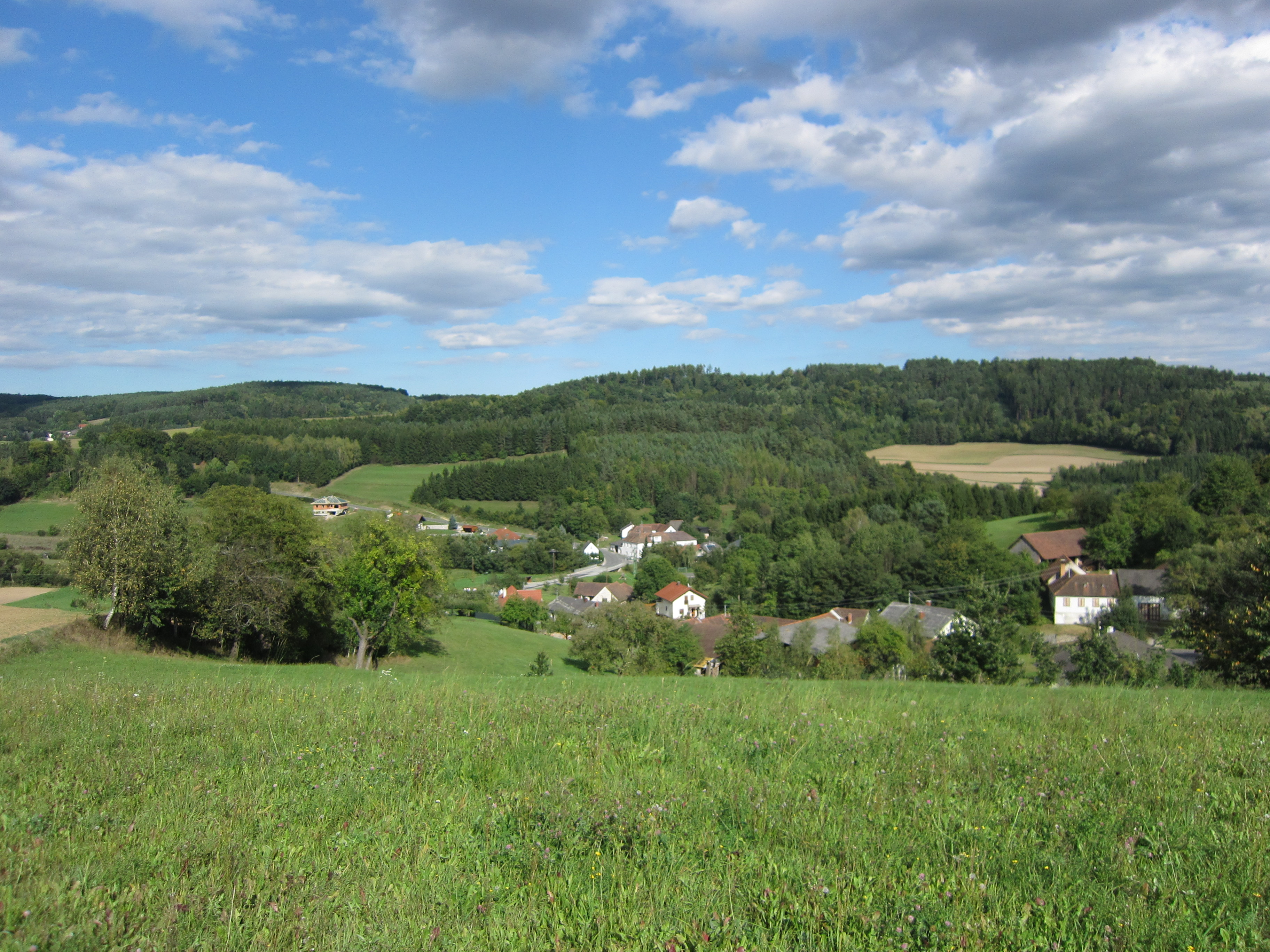 The picture shows an overview of the village of Bergwerk in September 2011.